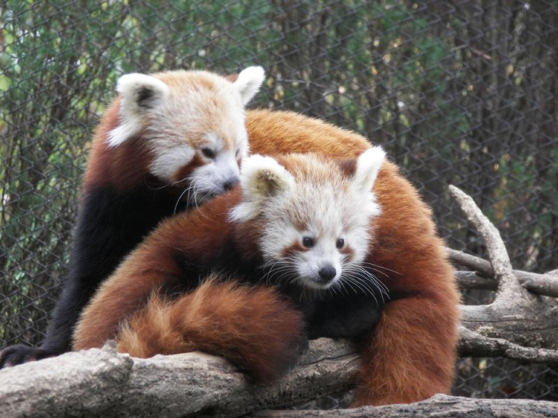 Mom & baby red panda @ Erie Zoo 10/06